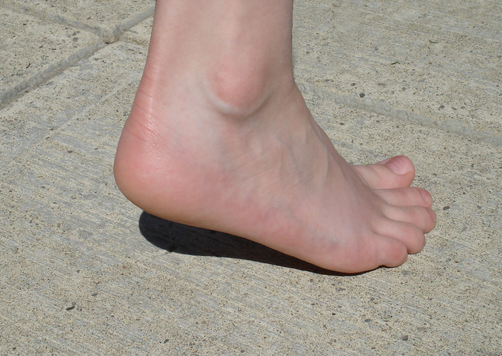 a girl's heel